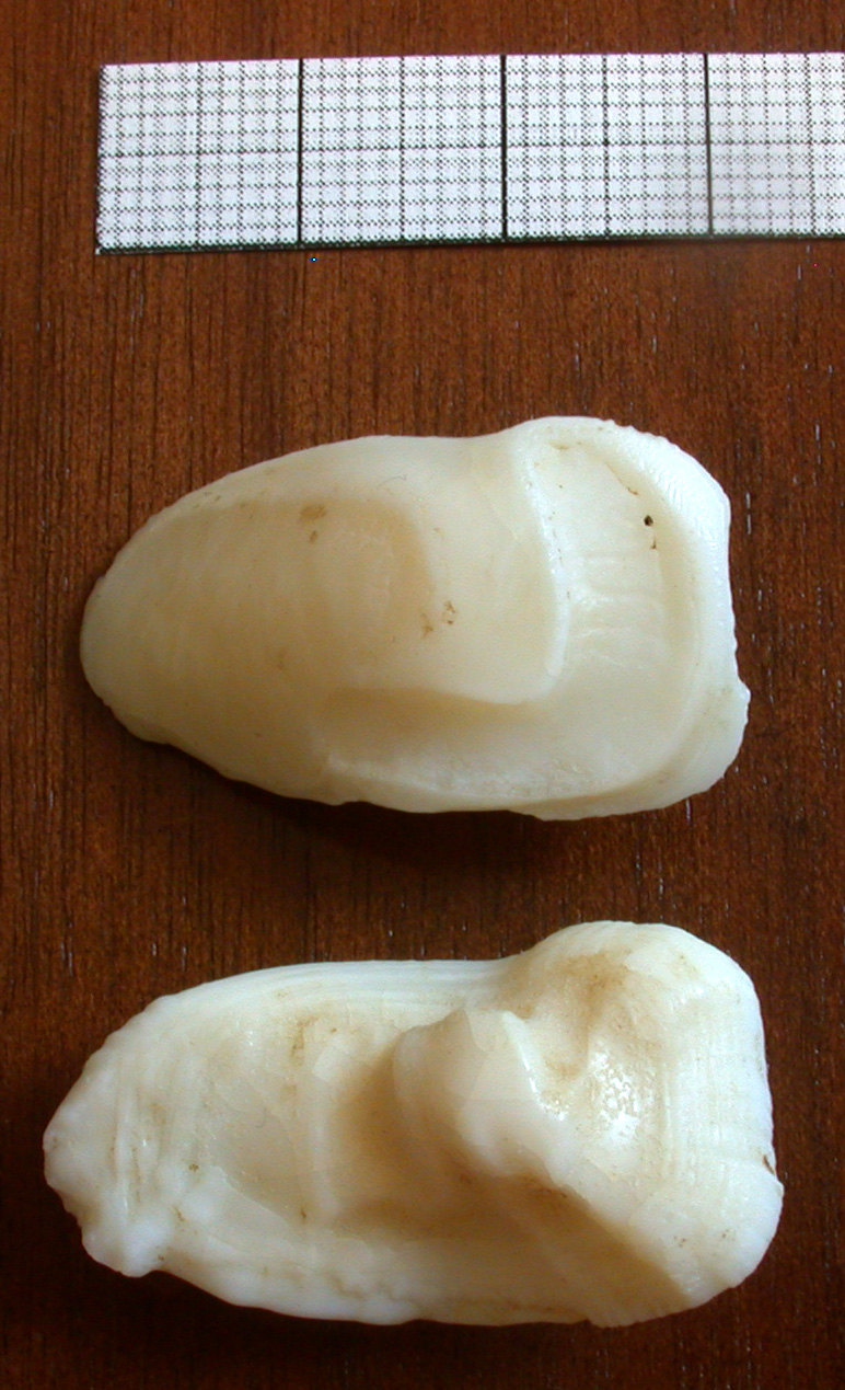 Argyrosomus regius Otoliths of Argyrosomus fish